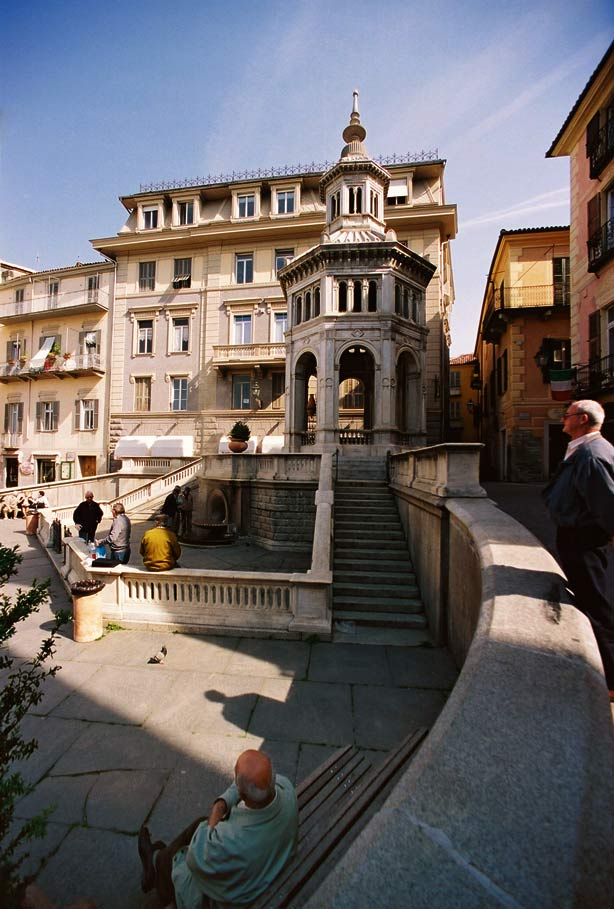 The sulphurous thermal waters of Acqui Terme—the ancient Aquae Statiellae—bubble up at this pavilion known as La Bollente. It was built in 1870 by Giovanni Ceruti. (Olympus OM-4; Sigma 14/3,5)